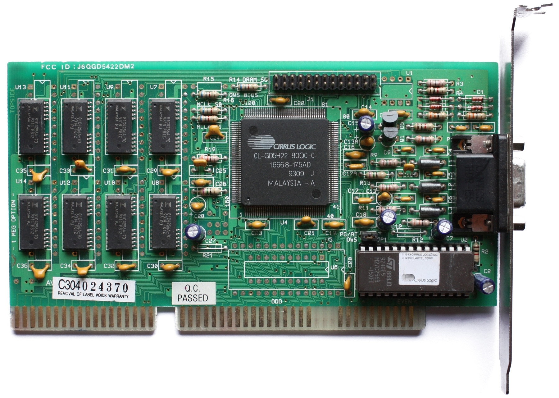 Cirrus Logic GD5422